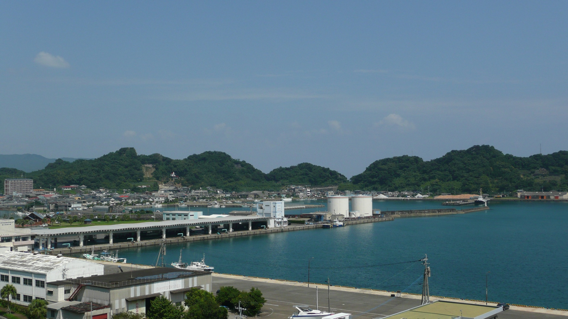 Aburatsu Port (Nichinan City, Miyazaki, Japan)